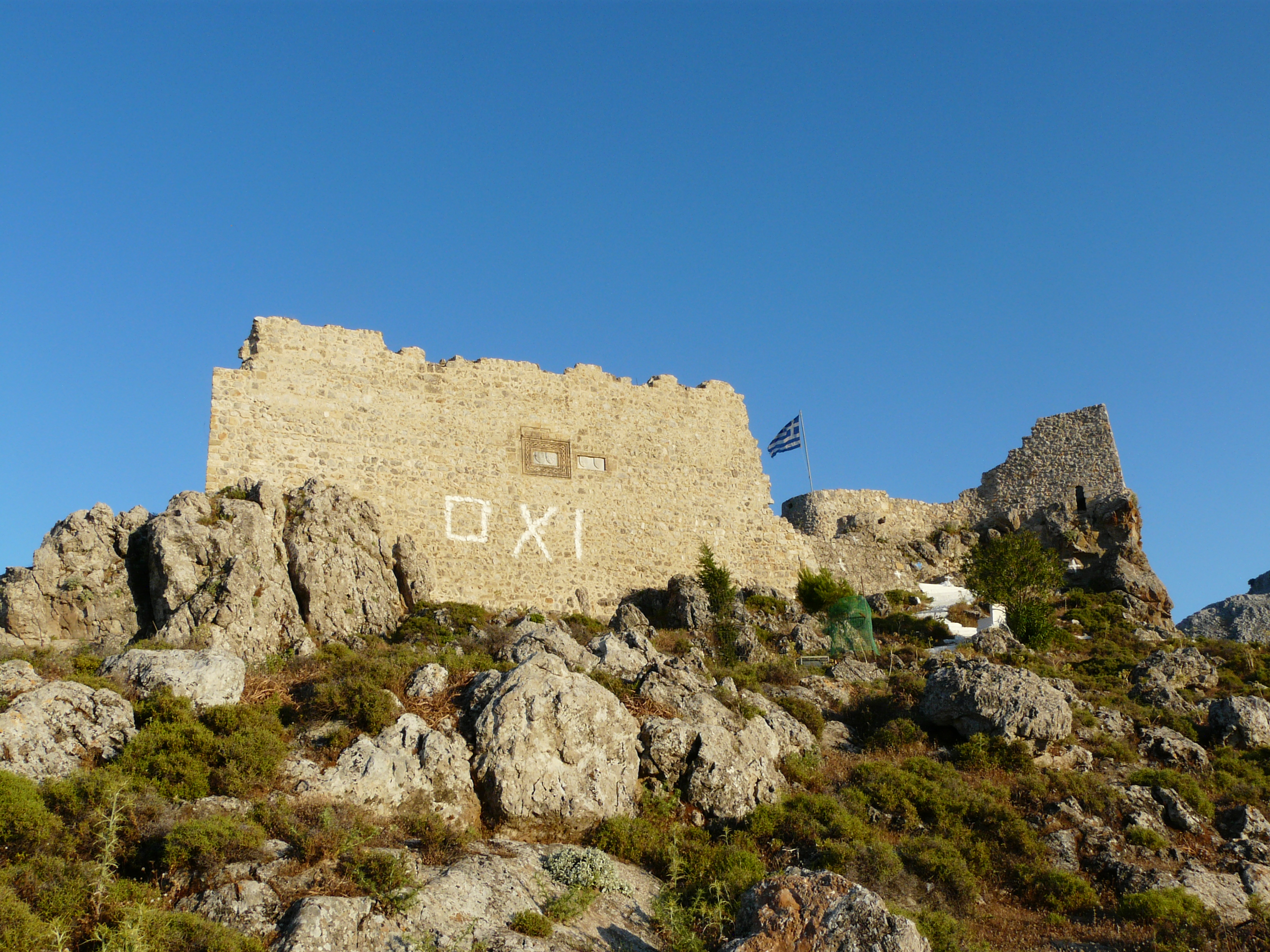 Archangelos (Rhodes). Ruins of the castle of Saint John.